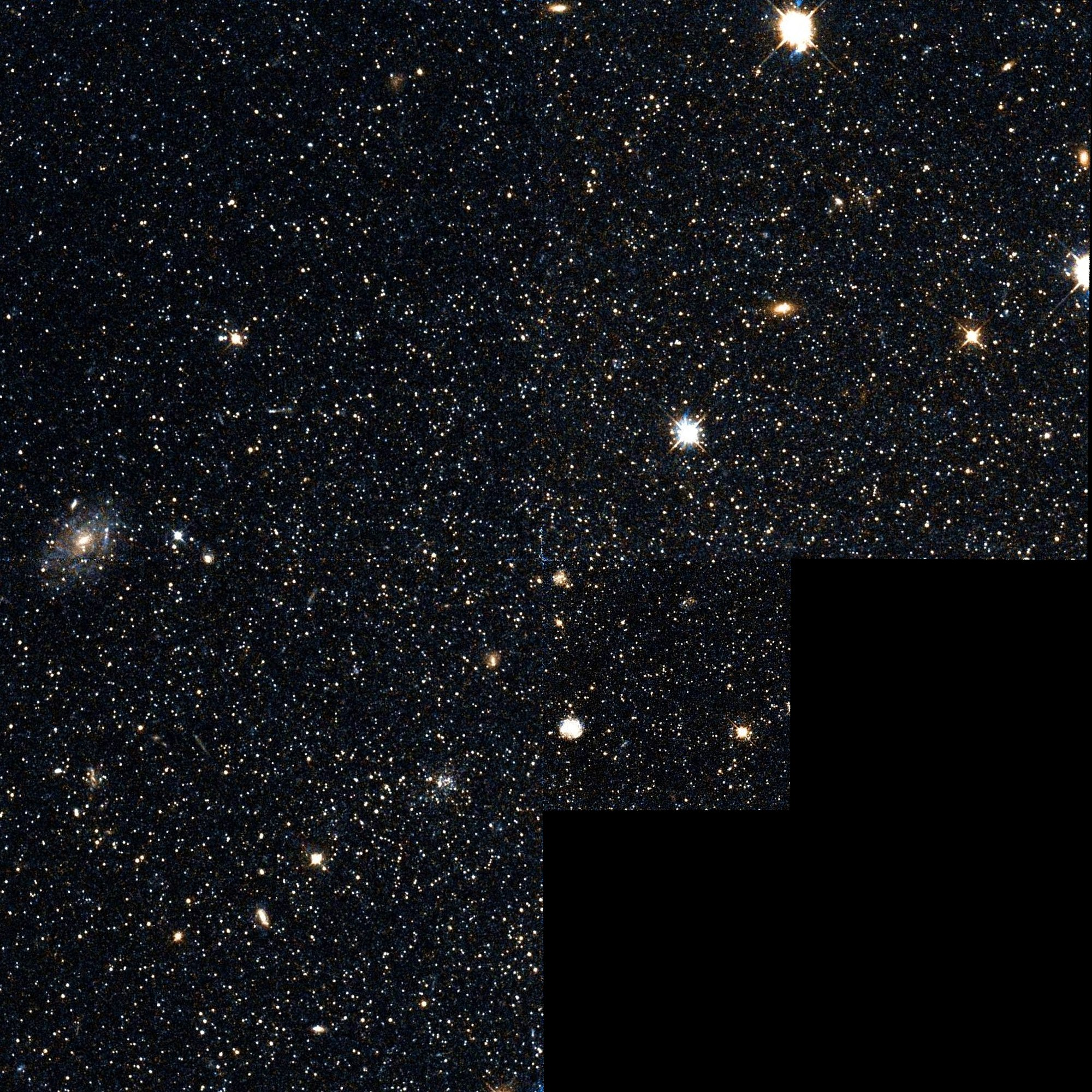 Andromeda I dwarf galaxy by Hubble space telescope